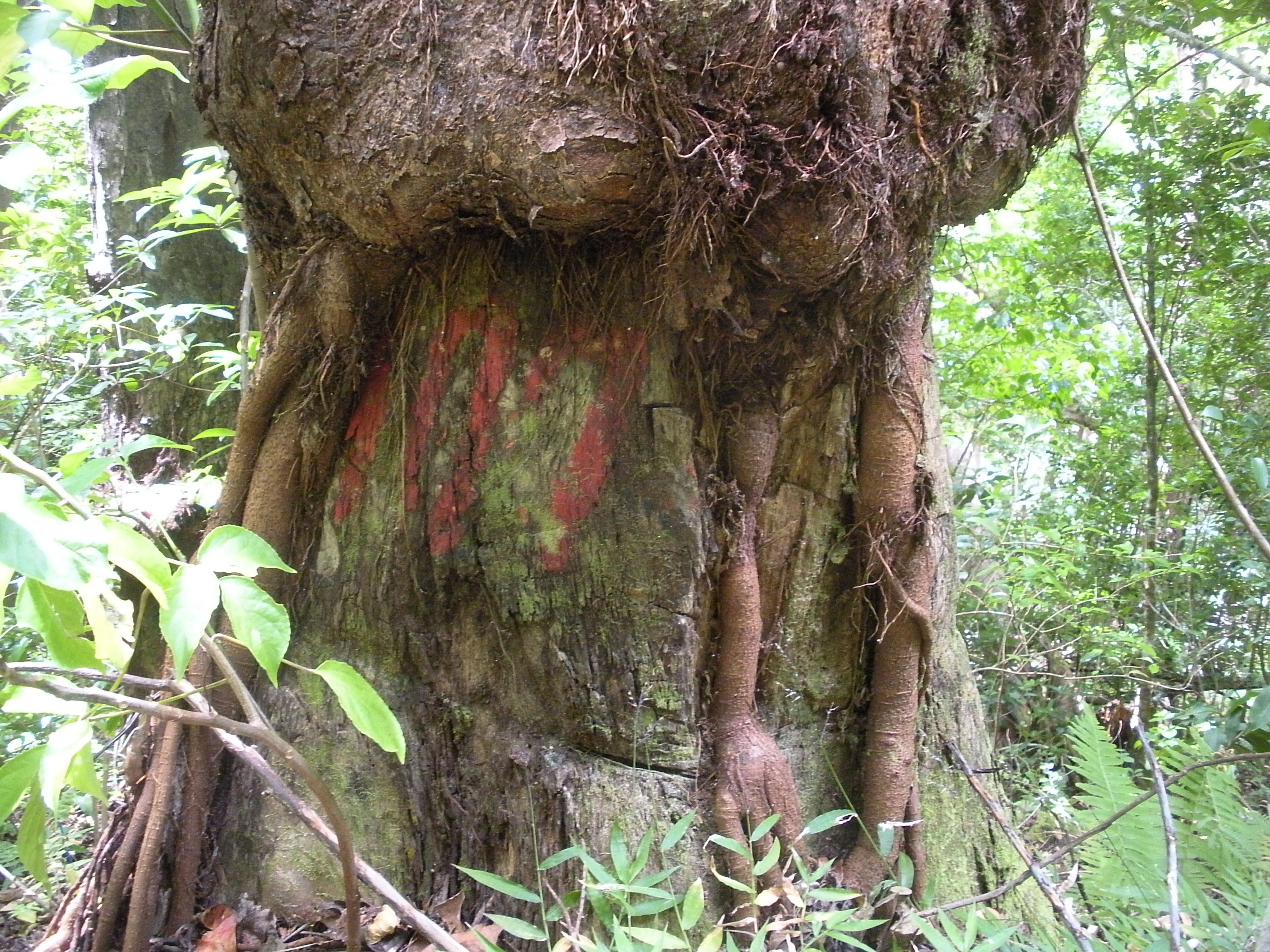 Bischofia javanica in Bonin Islands Hahajima.